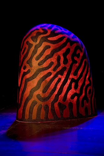 Side view of Iamus computer.